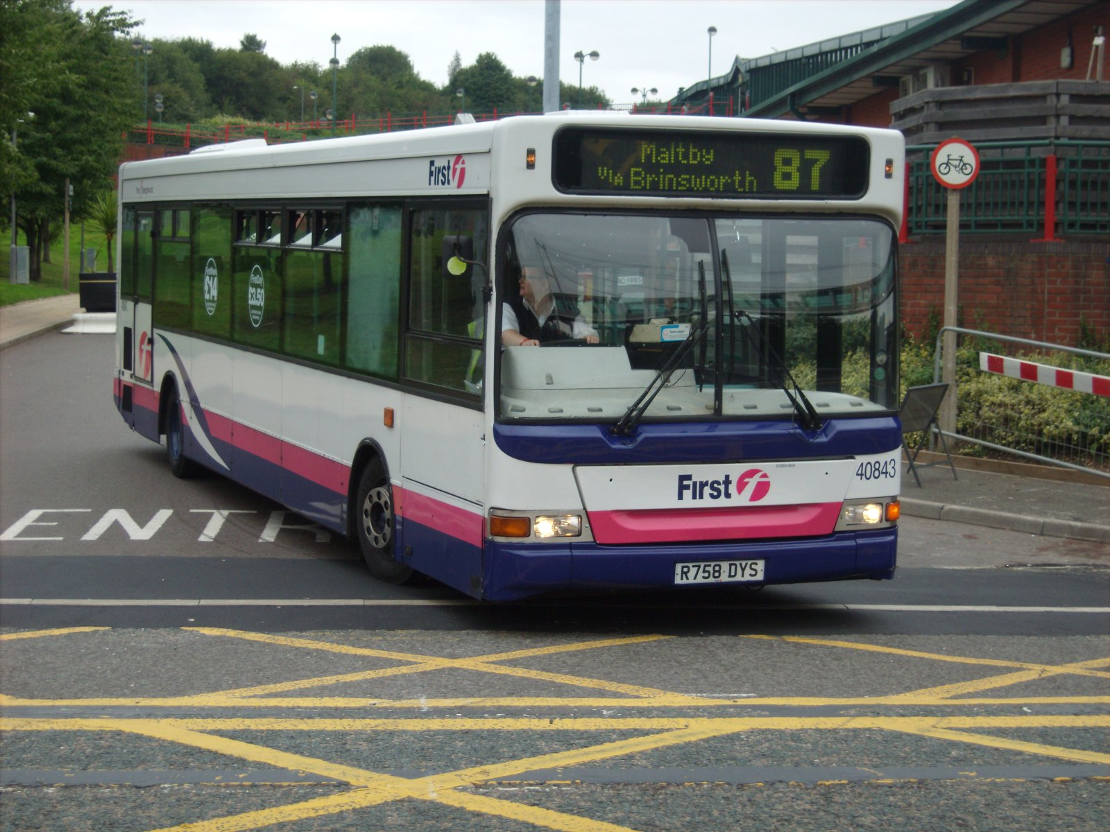 Meadowhall Rally 2008